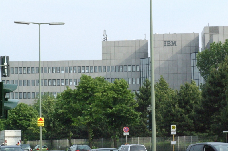 IBM office building Nahmitzer Damm in Berlin-Marienfelde